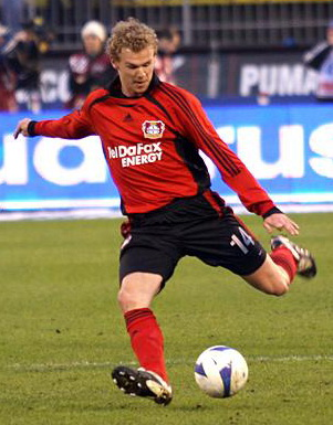 Sascha Dum